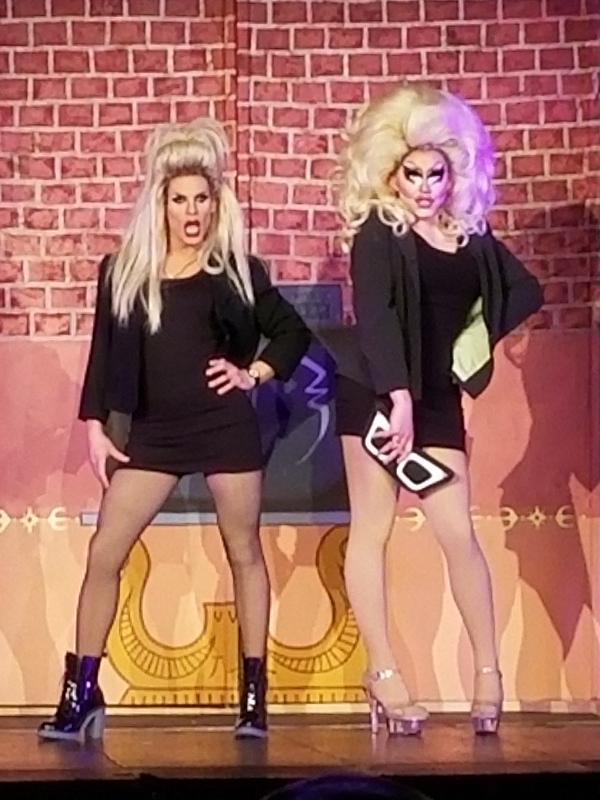 Katya Zamolodchikova and Trixie Mattel in Peaches Christ's Trixie and Katya's High School Reunion at the Castro Theatre in San Francisco, California, United States